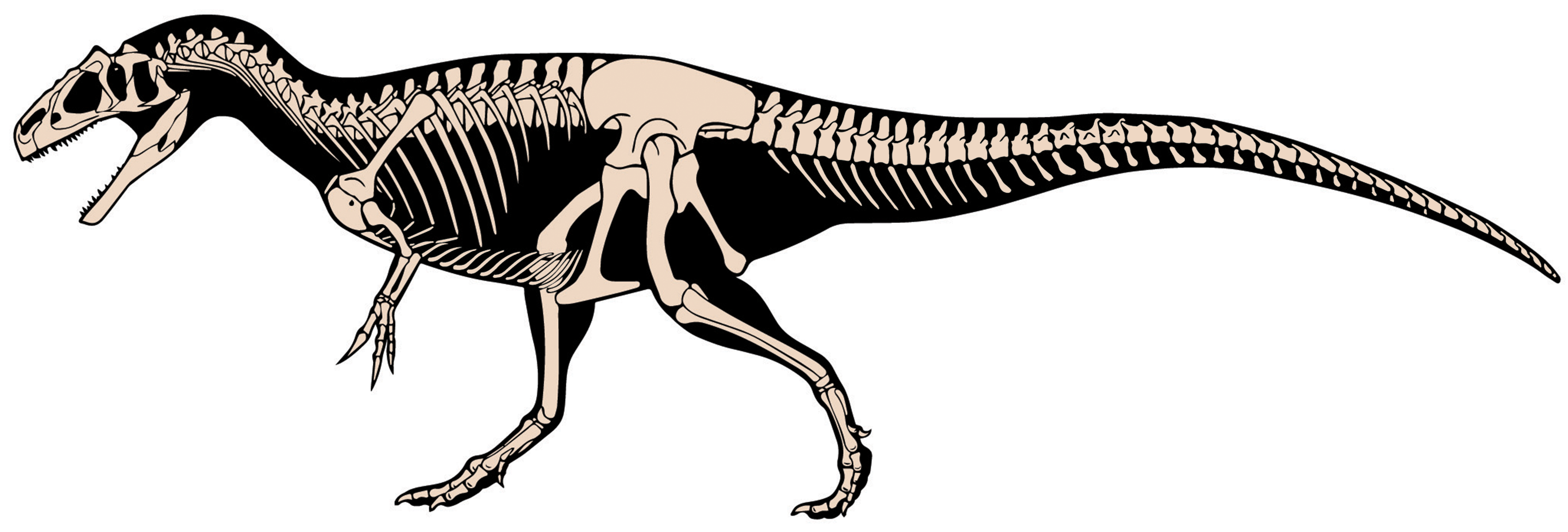 Skeletal reconstruction of Allosaurus jimmadseni MOR 693.